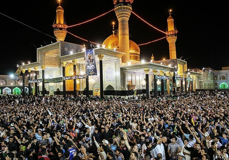 Al-Kadhimiya Mosque in Baghdad City in Iraq 2017